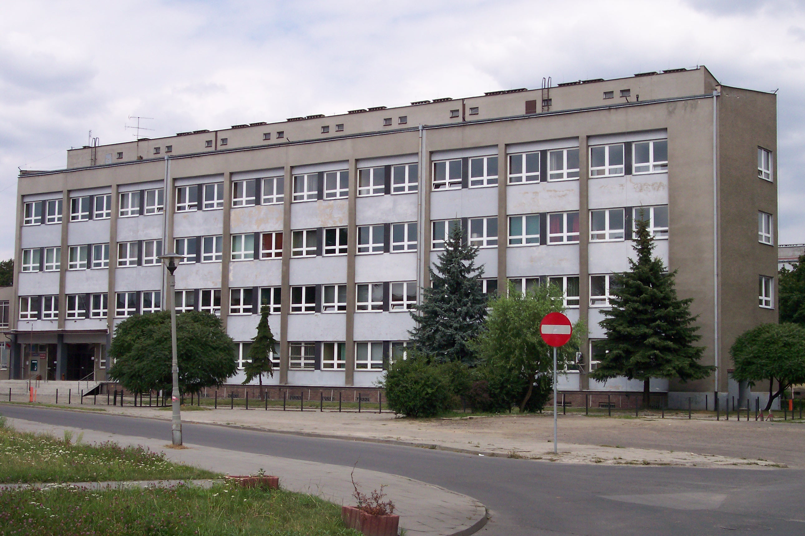 Silesian University of Technology - Faculty of Chemistry